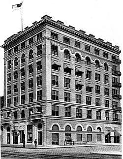 historic view of the Masonic Temple Building in Raleigh, North Carolina